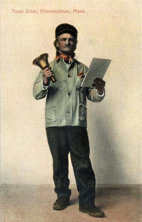 Town Crier, Provincetown, Massachusetts; from a 1909 postcard published by Provincetown Advocate, Provincetown, Massachusetts.